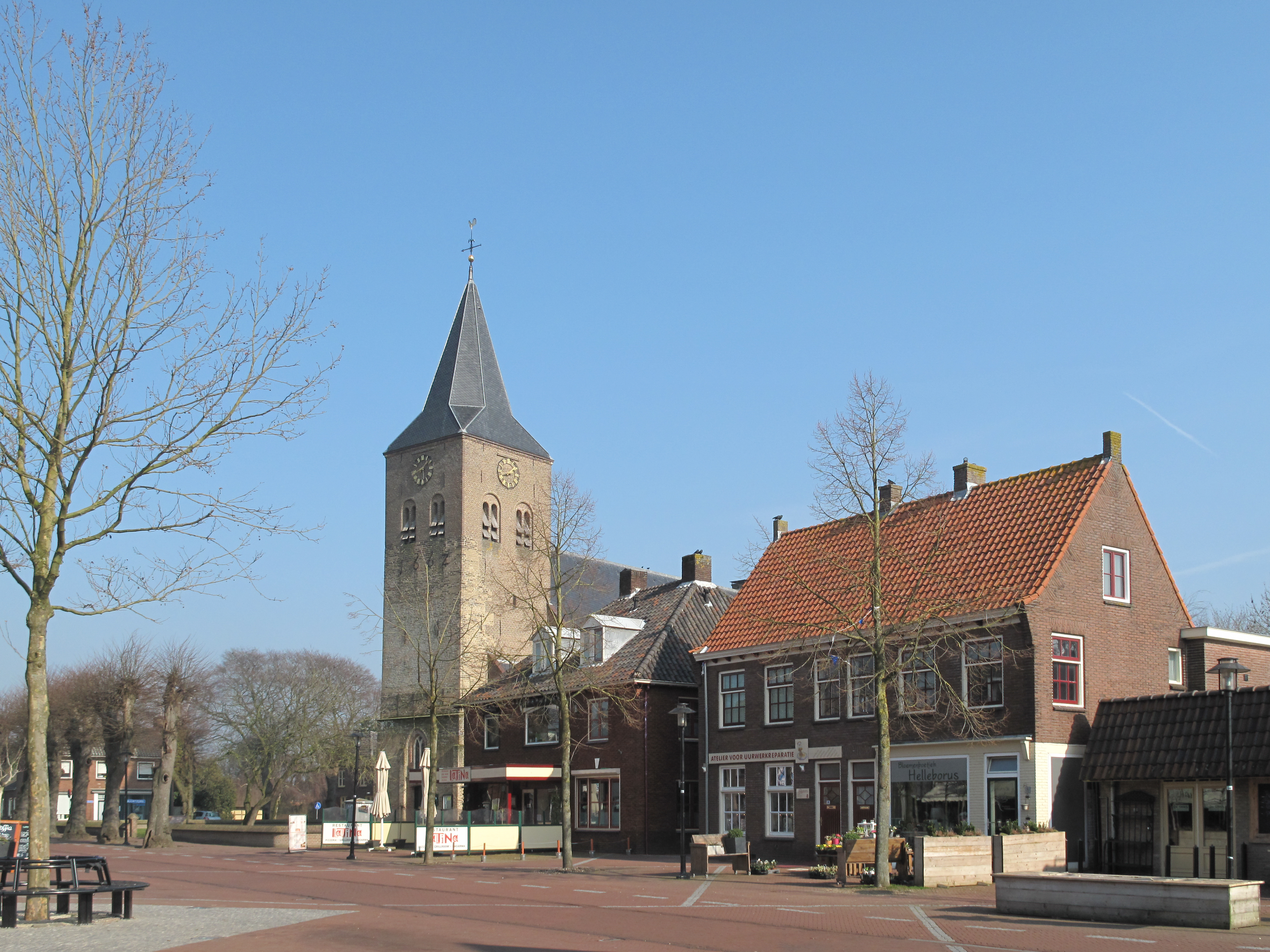 Zelhem, church: Lambertikerk and the square